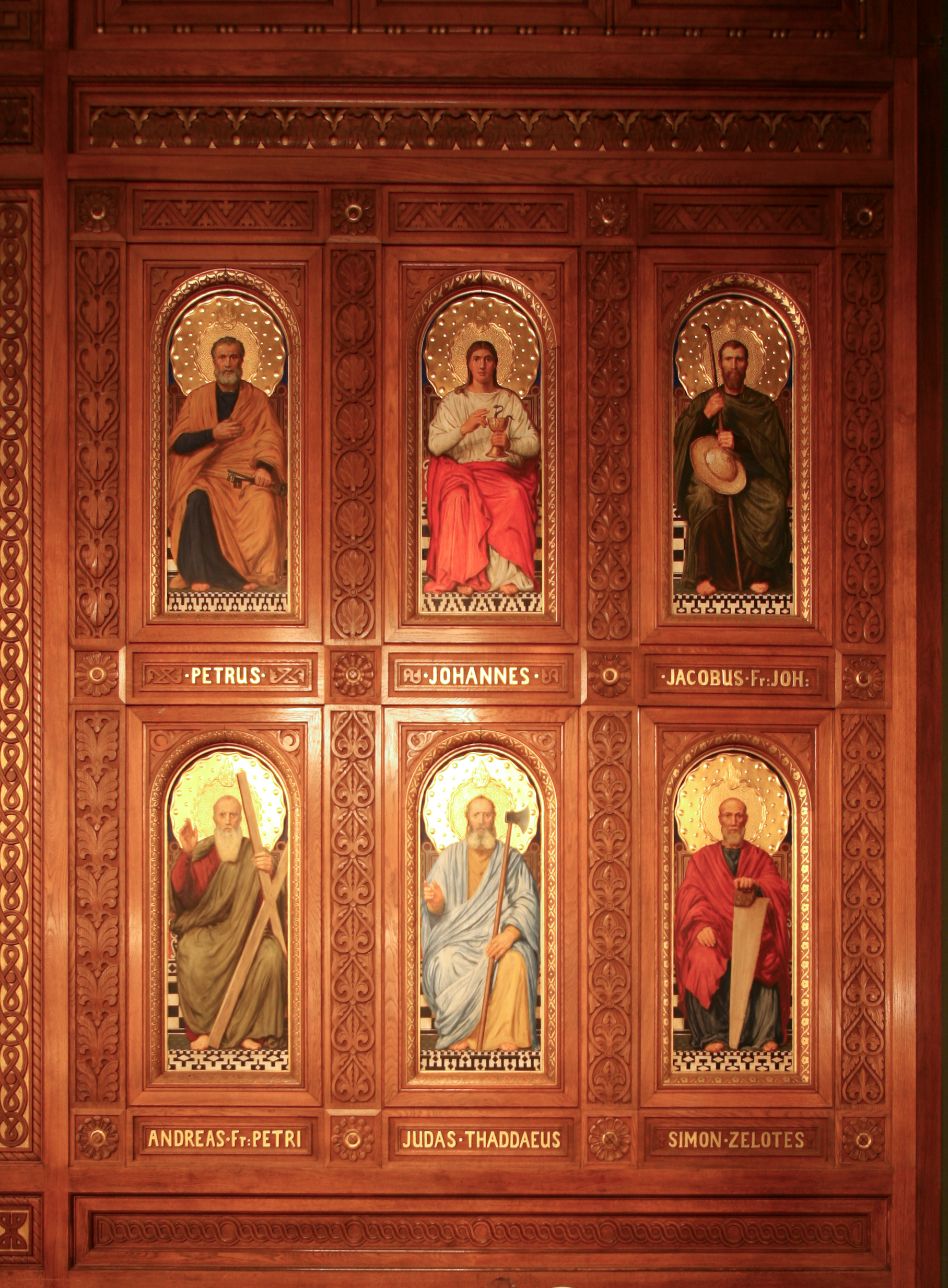 Jesuskirken, Valby, Copenhagen, Denmark North wall decorated with the twelve apostles. Right side.